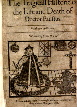 This is the artwork accompanying the printed playscript by English playwright Christopher Marlowe.